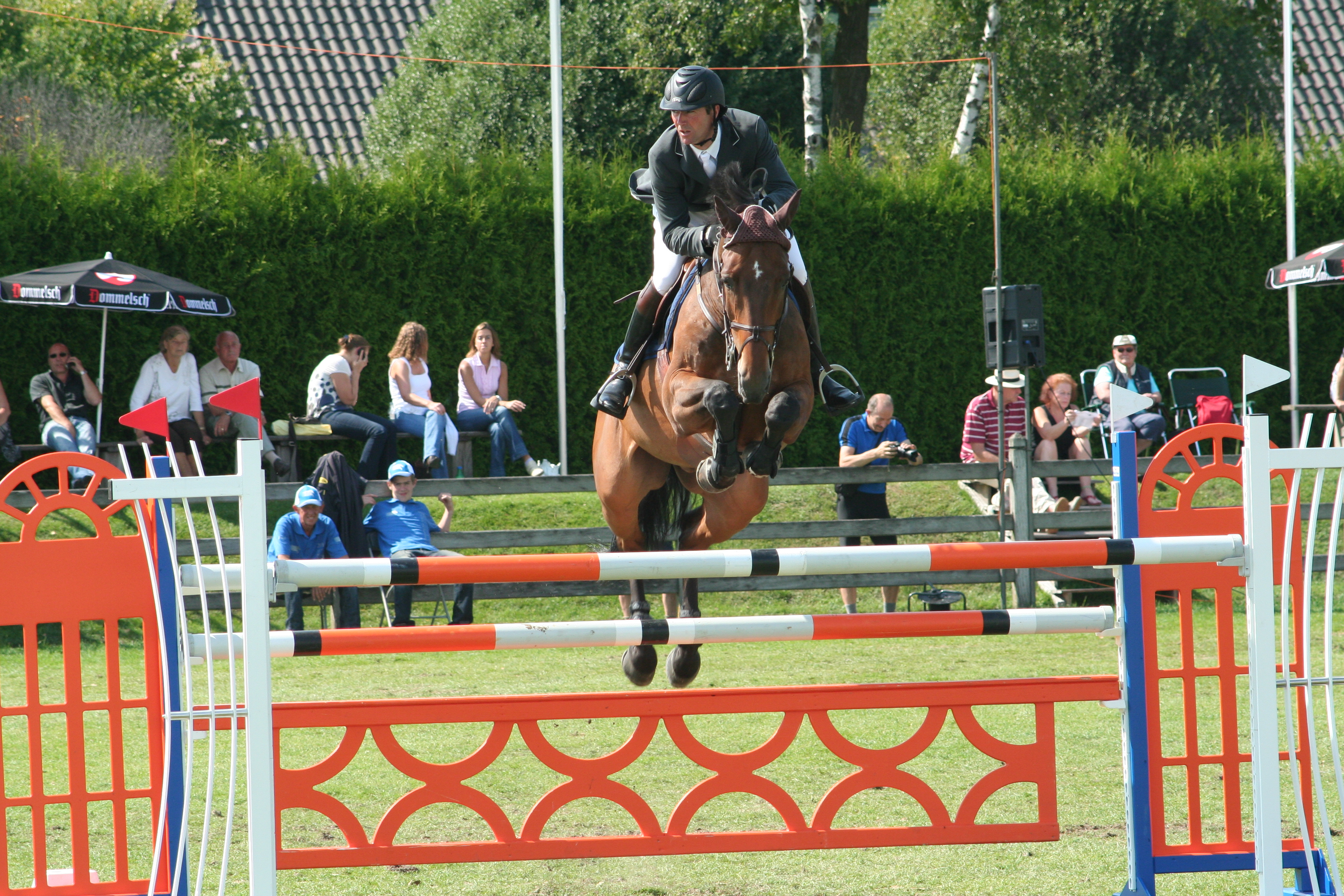 Patrice Delaveau riding Baritchou DBT at the Global Champions Tour CSI-2* in Valkenswaard (Netherlands)